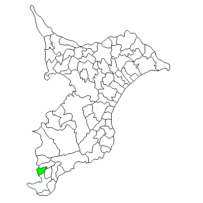 Location Map of former Tomiura Town, Chiba Prefecture, Japan, now part of Minamiboso City.